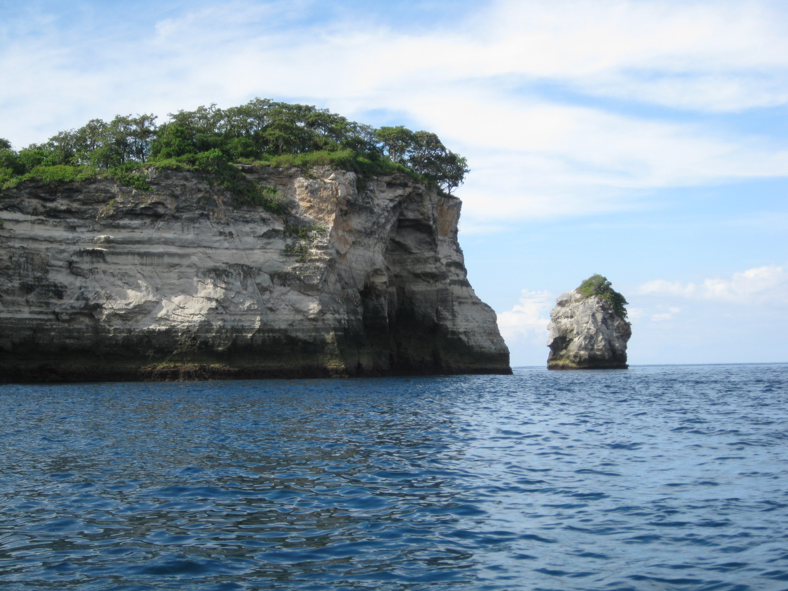 A typical offshore pinnacle on the rugged south coast of Nusa Penida. A typical offshore pinnacle on the rugged south coast of Nusa Penida, Nusa Penida.